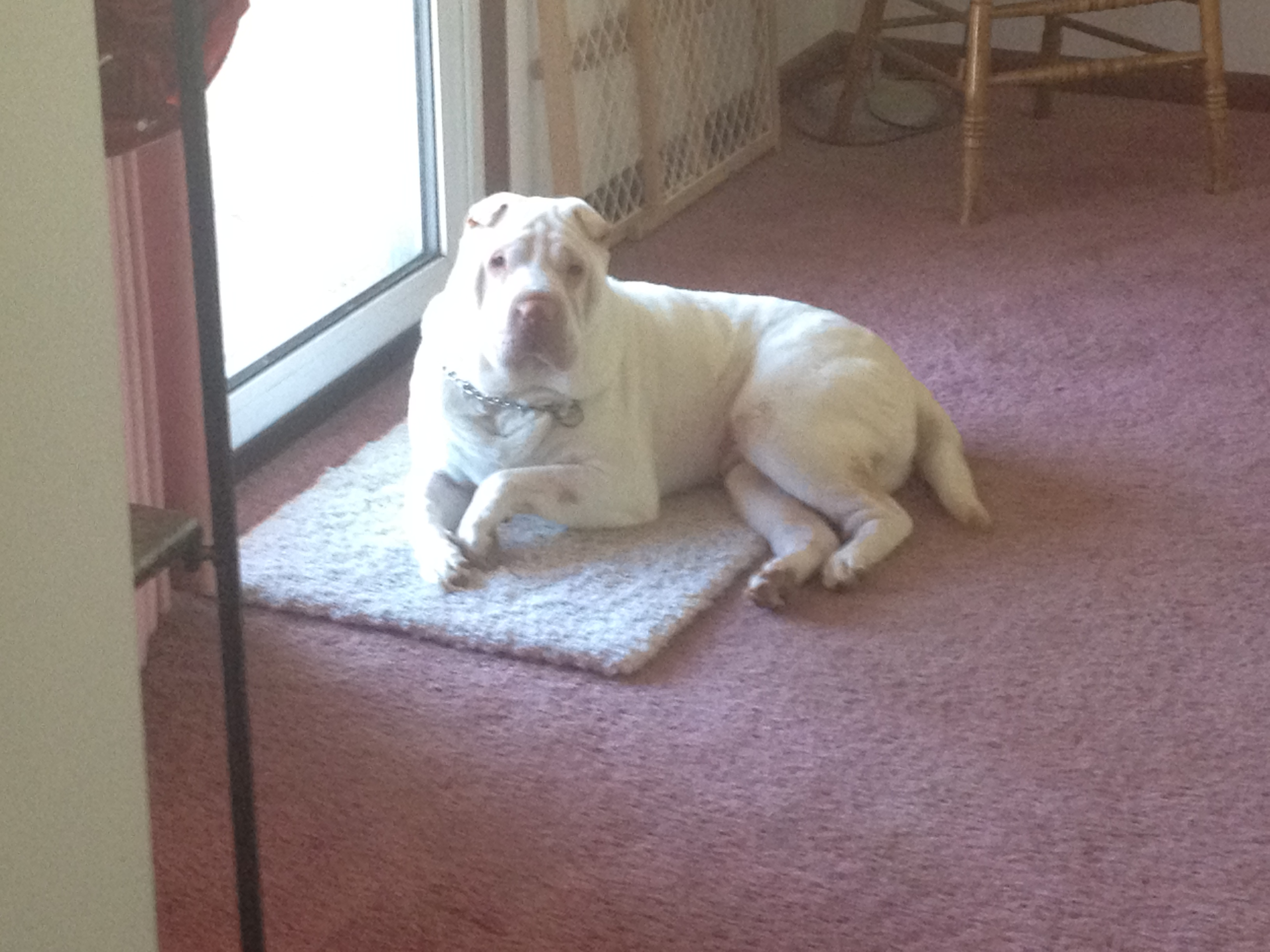 Template:EnShar Pei fever